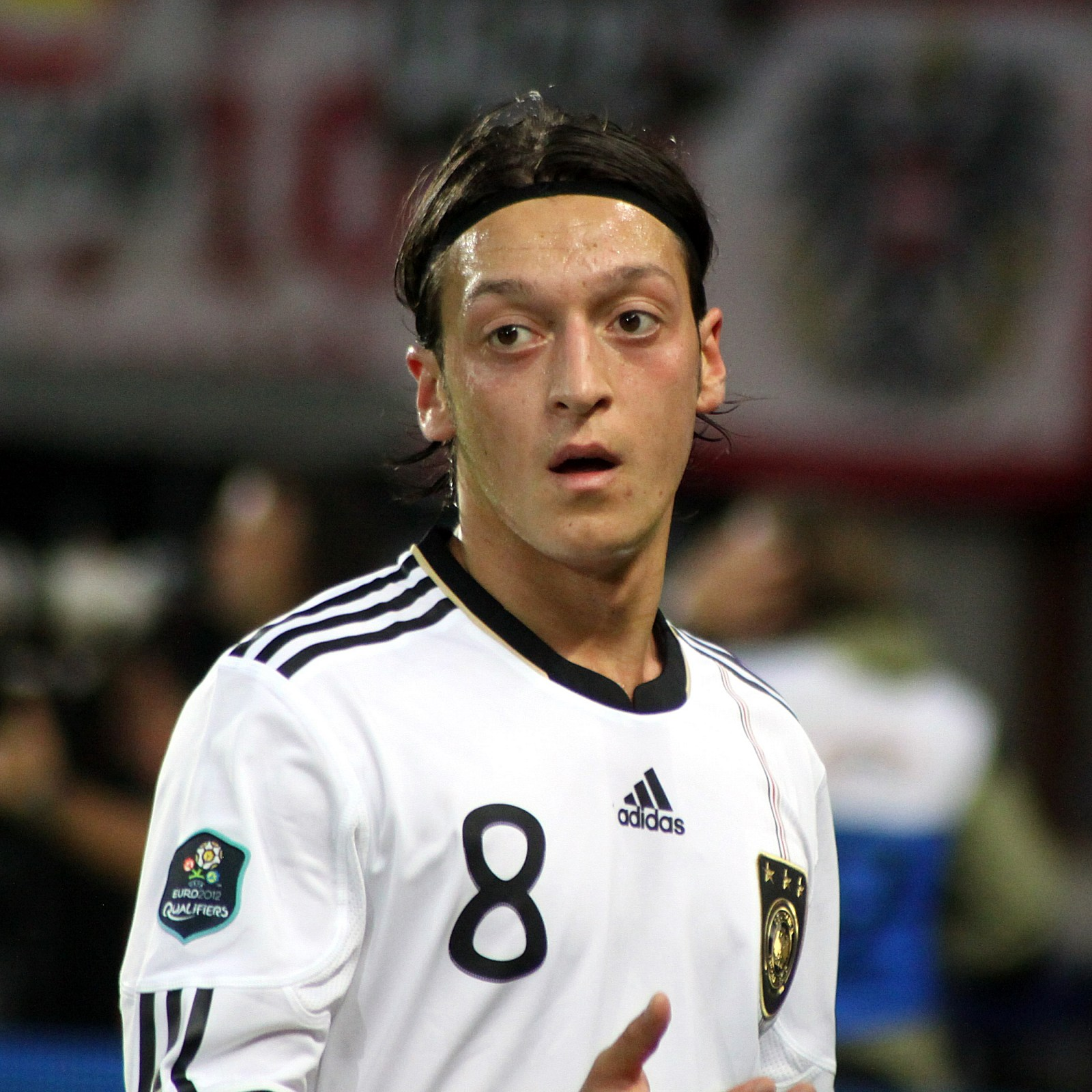 Mesut Özil (Real Madrid), german national football team